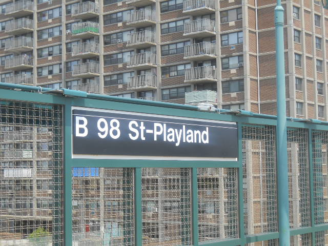 The new sign of the Beach 98th Street-Playland Station (IND Rockaway Line)